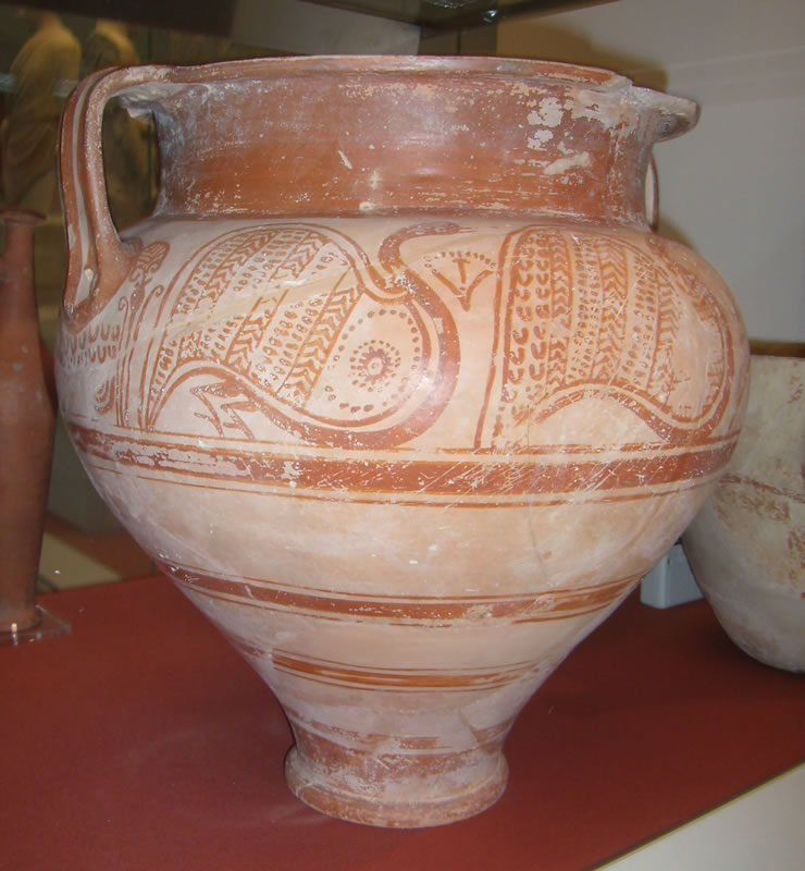 Mycenean krater found in tomb 45 Enkomi (Cyprus), British Museum